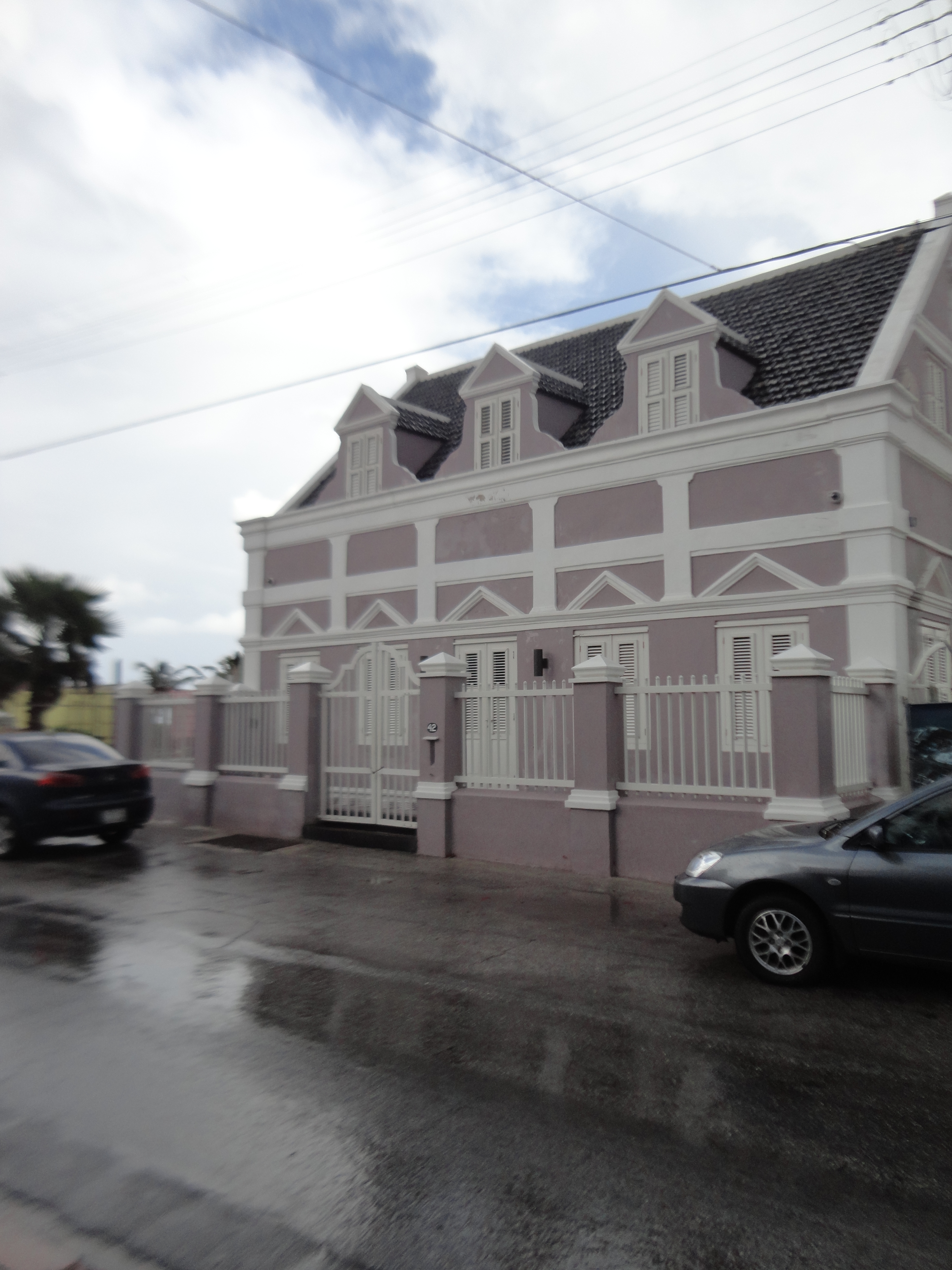 In the Pietermaai, WIllemstad